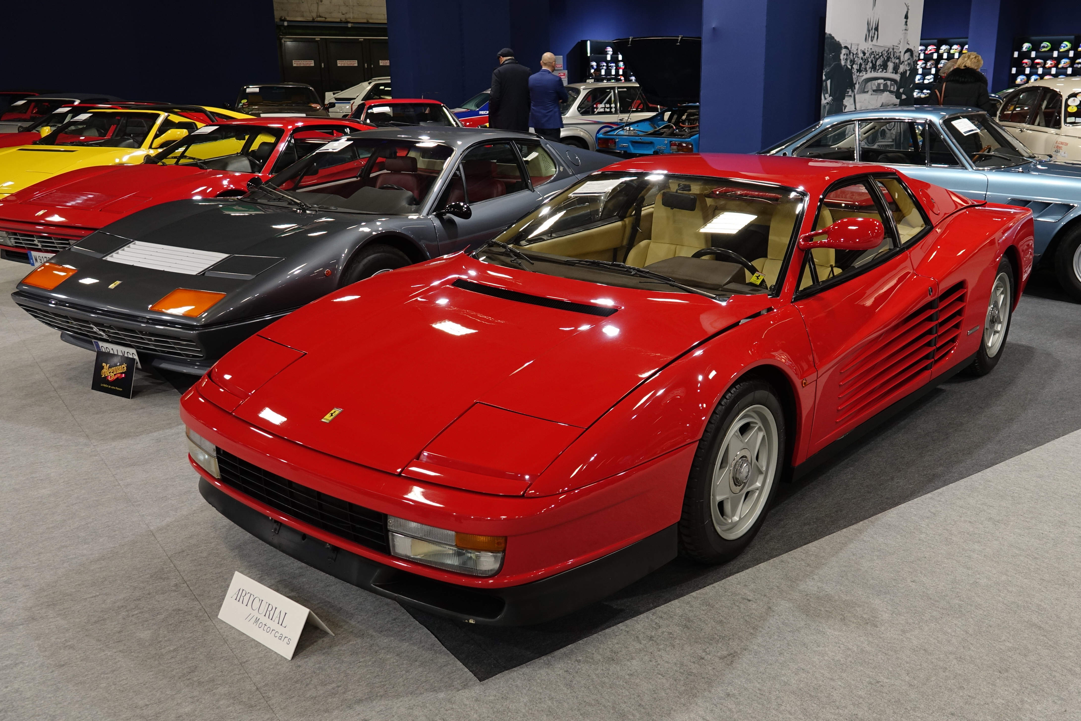 1984 Ferrari Testarossa Châssis n°ZFFTA17B000053081. Claimed to be the first Testarossa made.[1] For auctioning (not sold) at the 2019 Retromobile.[2]